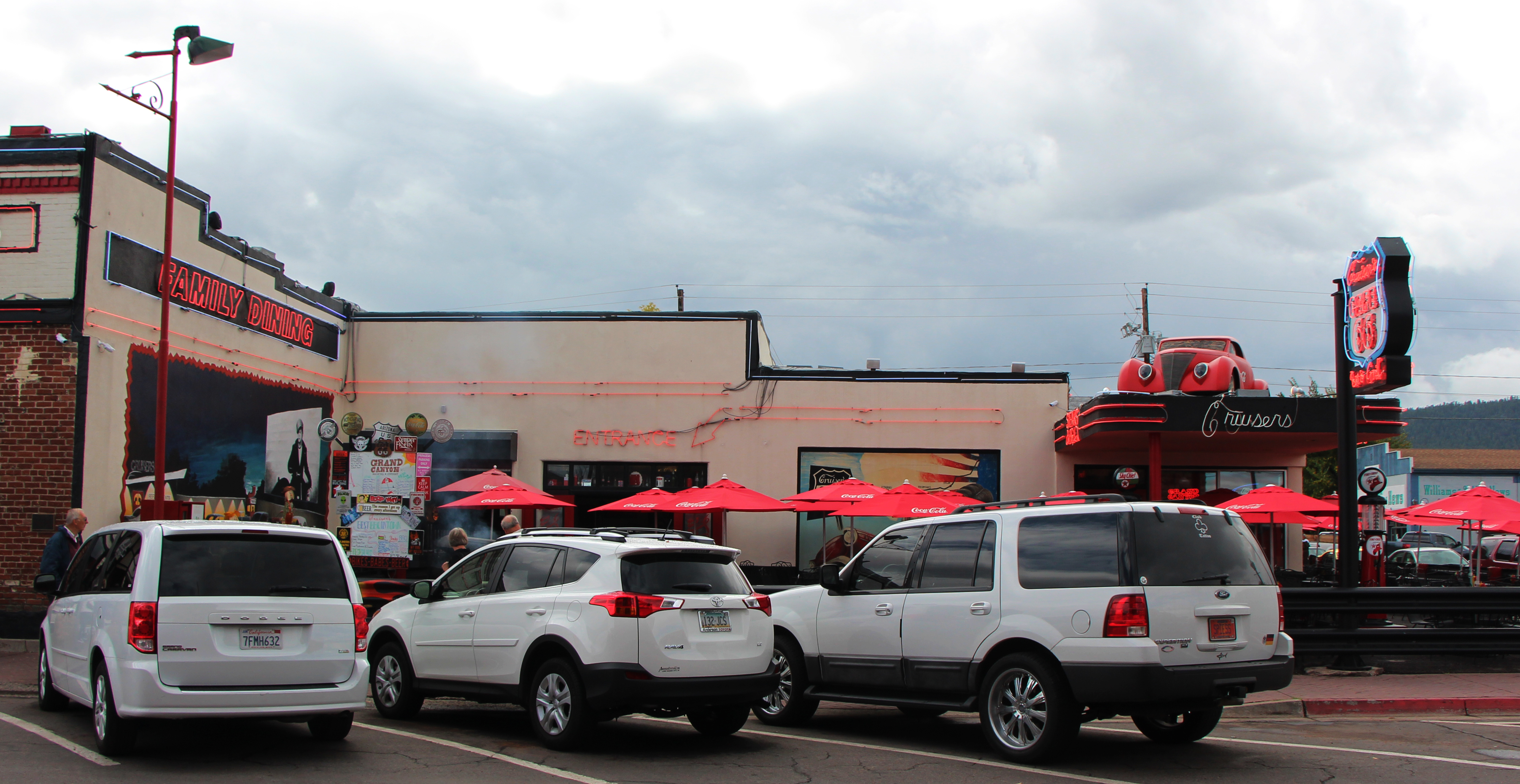 Bennett's Auto, 239 W. Route 66, Williams, AZ